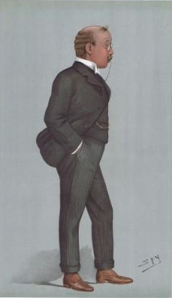 Caricature of Mr RF Cavendish MP. Caption read "North Lancashire".